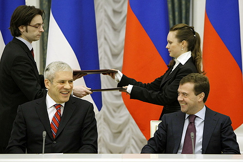 MOSCOW, KREMLIN. With President of Serbia Boris Tadić during the signing of joint Russian-Serbian documents.